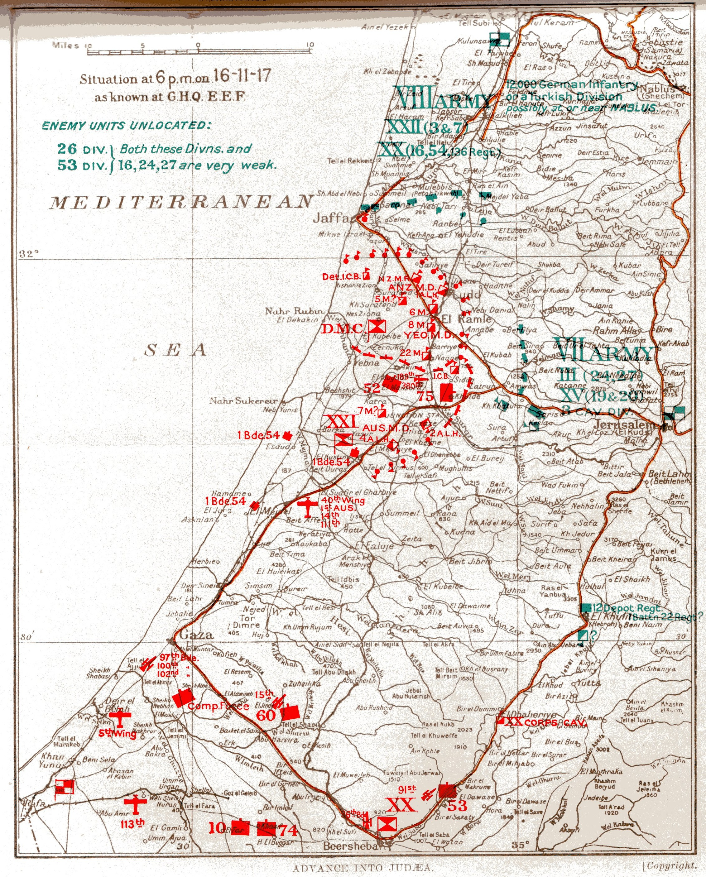 Battle for Jerusalem 1917. Map showing the situation at 18:00 on 16 November 1917 as known to GHQ EEF.